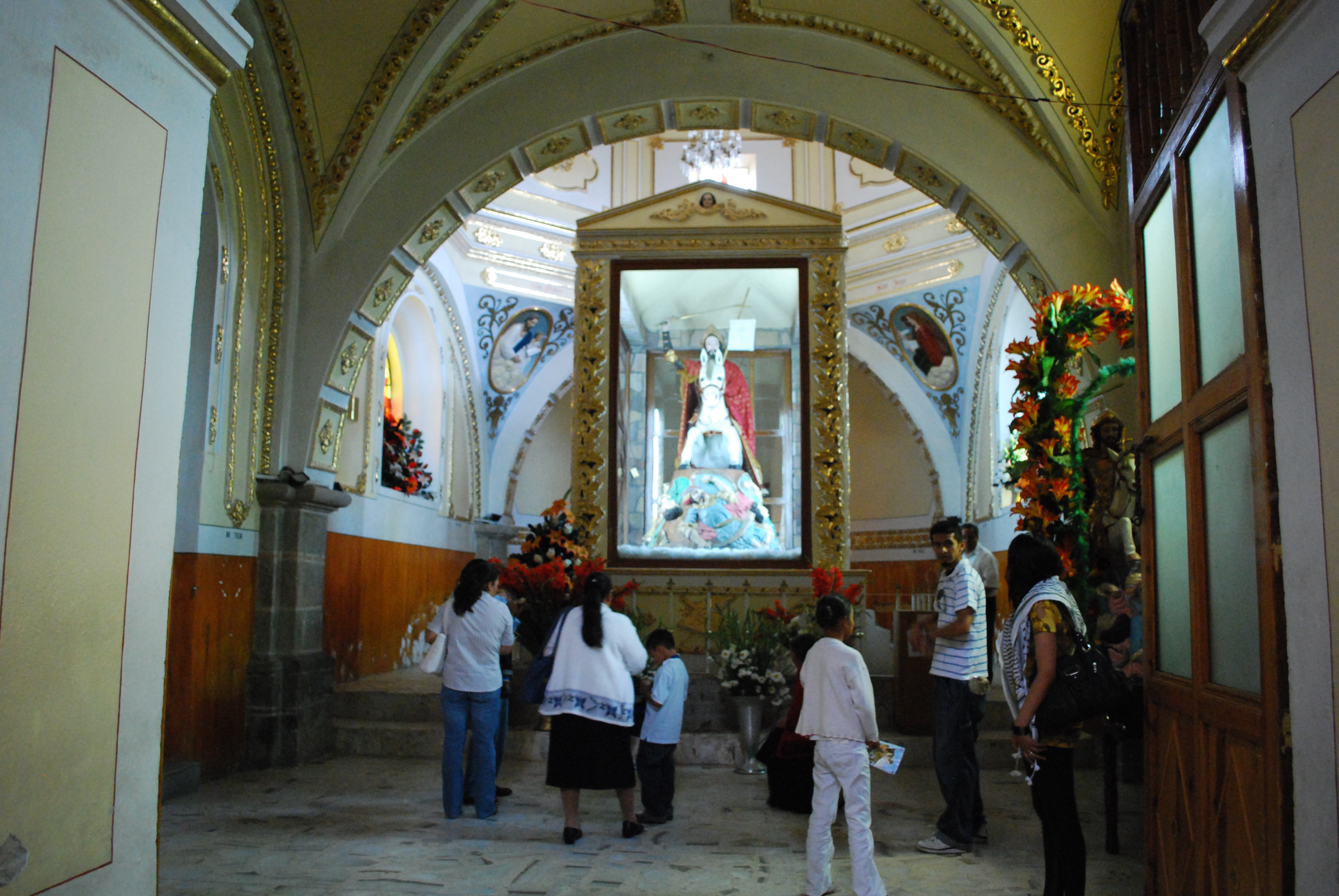 Case with equestrian statue of Saint James the Moor-slayer in its chapel at the main church of Temoaya, Mexico State